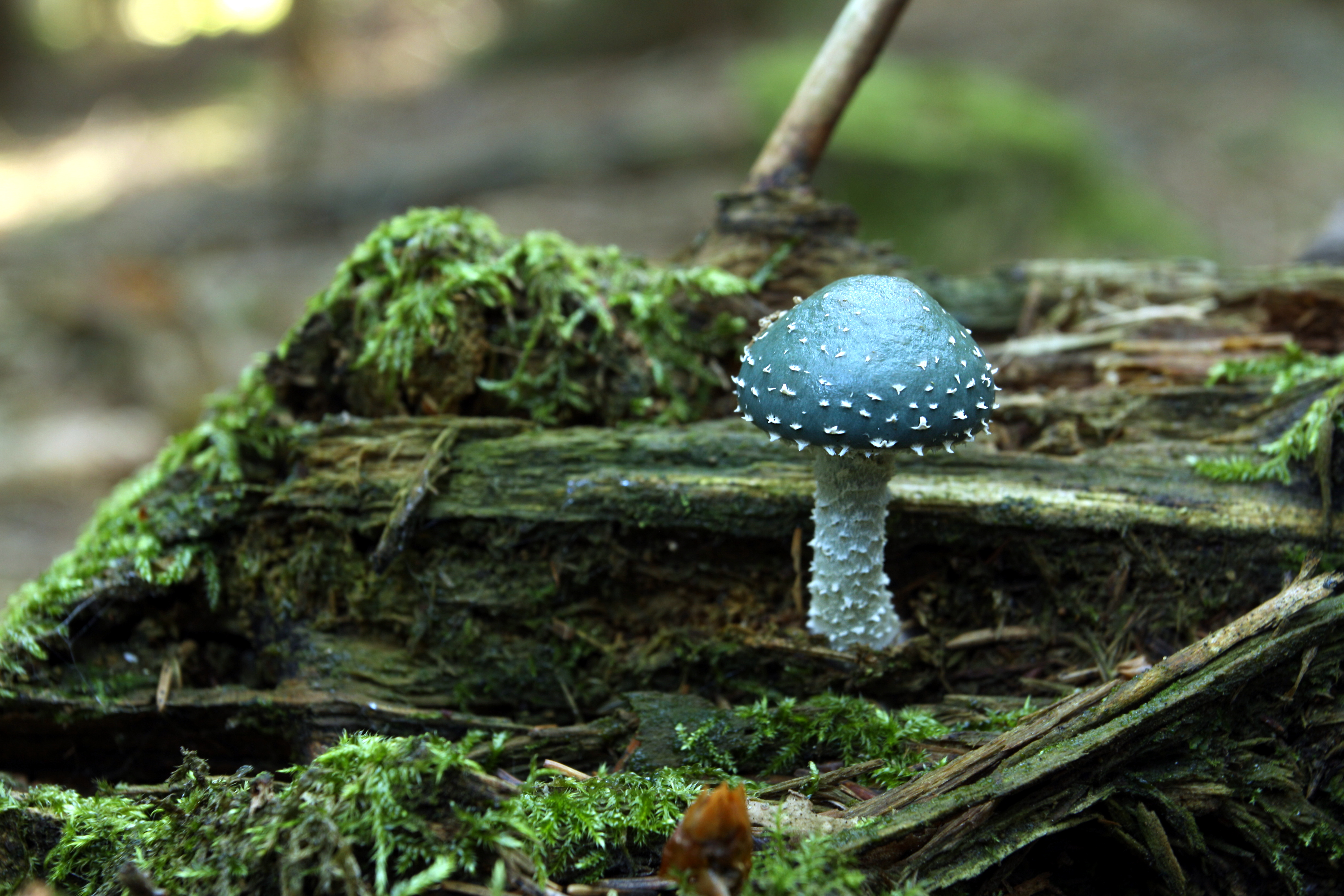 Stropharia aeruginosa in nature park Jesenicko in Rakovník District, Czech Republic